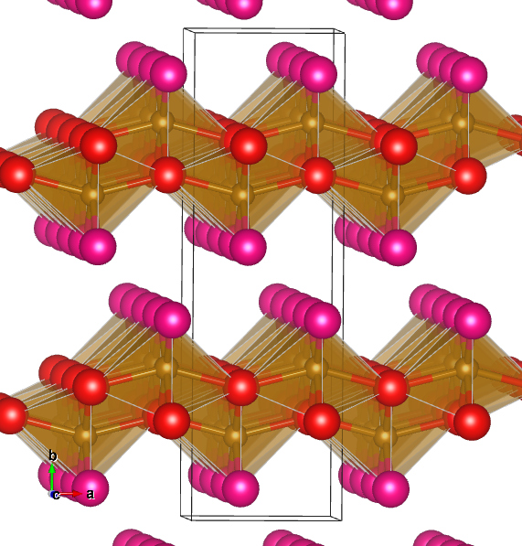 Rendering of the lepidocrocite (gamma-FeO(OH)) crystal structure. Iron atoms shown as brown spheres; lattice oxygen as red spheres; and hydroxyl oxygen as magenta spheres. Hydrogen atoms are not shown. Black lines indicate one unit cell. Structure parameters taken from F. Ewing, J. Chem. Phys. 3 (1935) 420-424. Image created using VESTA software (K. Momma and F. Izumi, J. Appl. Crystallogr. 44 (2011) 1272-1276).